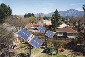 Rooftop view of backyard solar trackers with ASE DG-285 and DG-300 panels. This is a nominal 50 volt system driving a Trace on-grid inverter (no batteries are used). These are Zomeworks passive trackers. Axis tilt is adjusted at the Spring and Fall equinox. Of the four positions available only two are used. Image taken and uploaded by User:Leonard G.. This image is also posted on a personal web site.